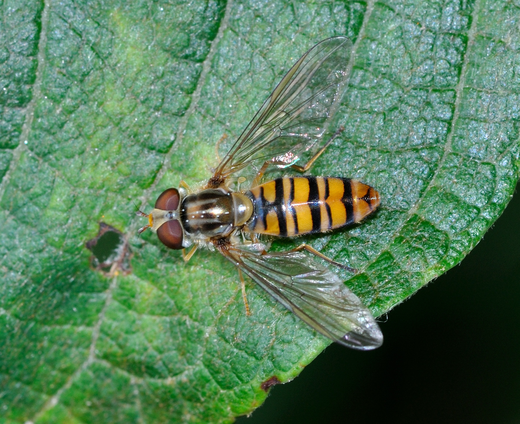 Female Marmalade Hoverfly (Episyrphus balteatus) in Oberursel, Germany.